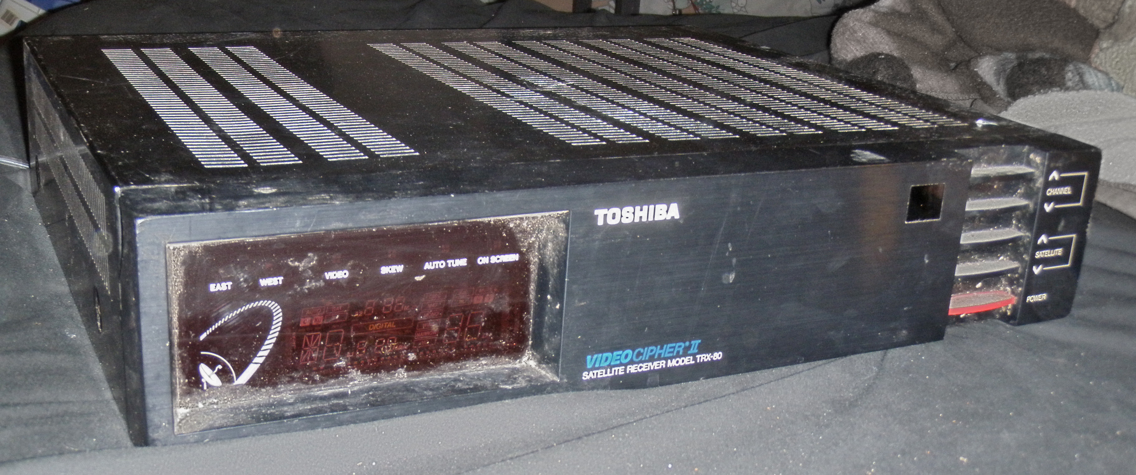 General Instrument videocipher. I created this work entirely by myself.